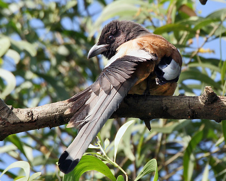 Roufous Treepie (Dendrocitta vagabunda) in Kolkata, West Bengal, India.